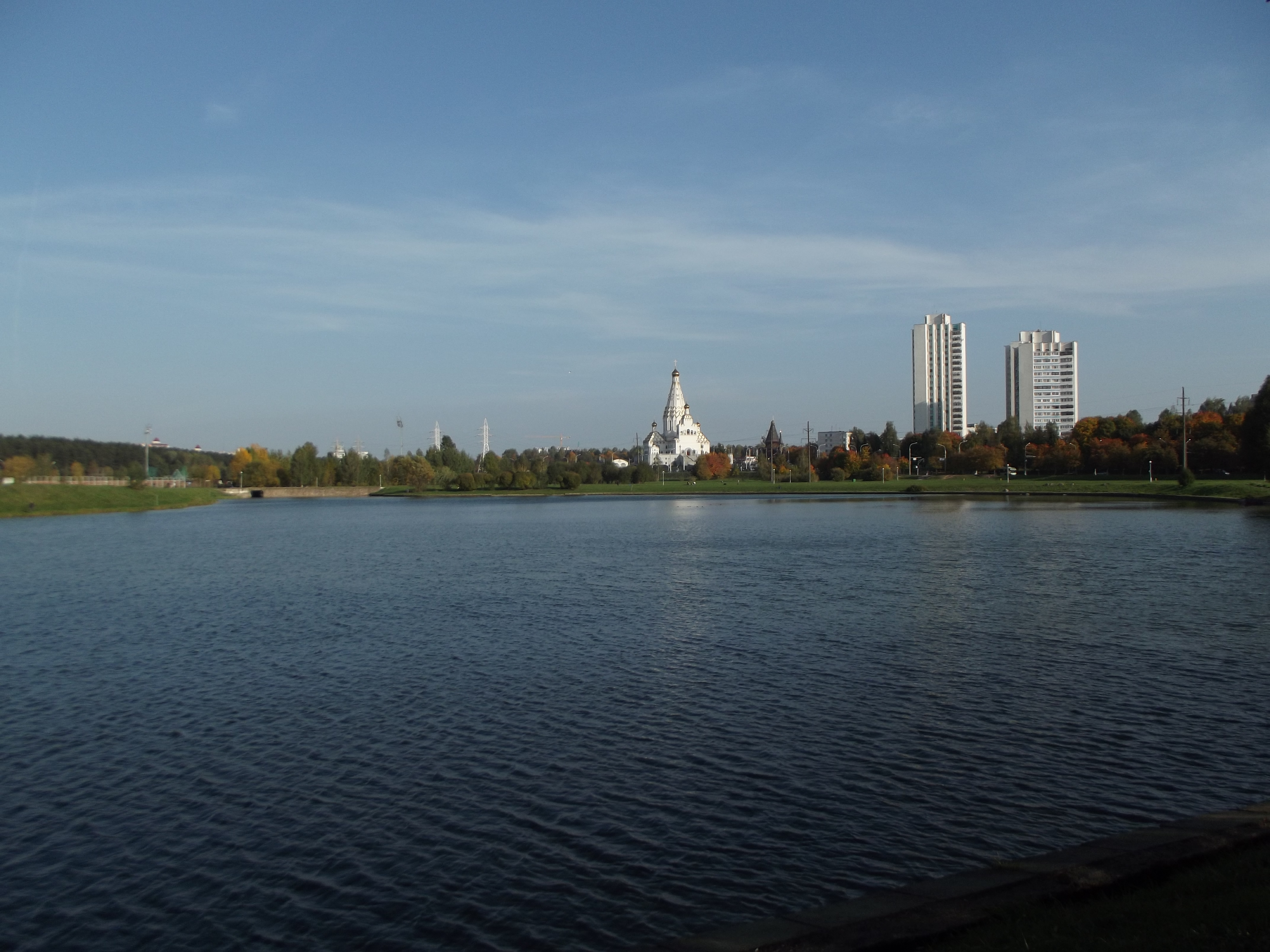 Slepianskaia water system, Vostok district, Minsk